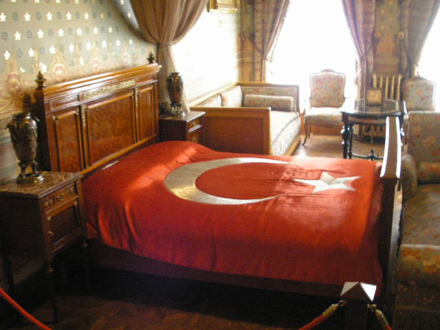 Atatürks deathbed (Atatürk'ün vefat ettiği oda) in Dolmabahçe Palace (#13 of the tour).